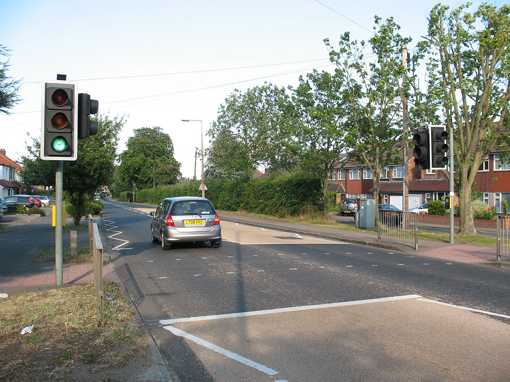 Pelican crossing on Cuffley Hill